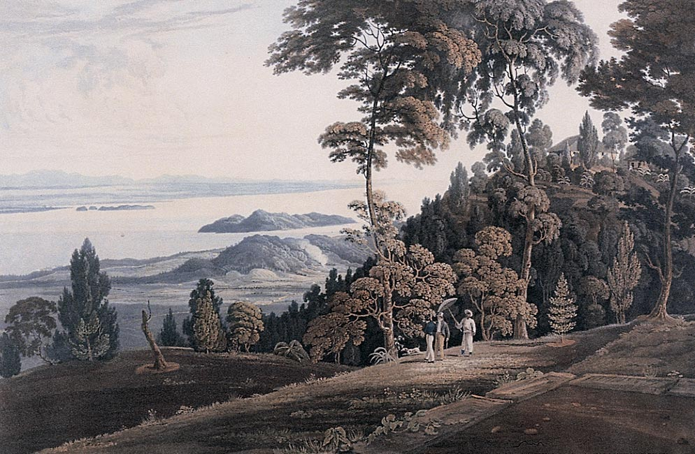 Title: View from Halliburton's Hill, Prince of Wales's Island Media: Aquatint Width: 704 mm (27.7 in) Height: 456 mm (18.0 in) Year of creation: 1818 Mode of acquisition: Presented by Estate of late Heah Joo Seang, 1969